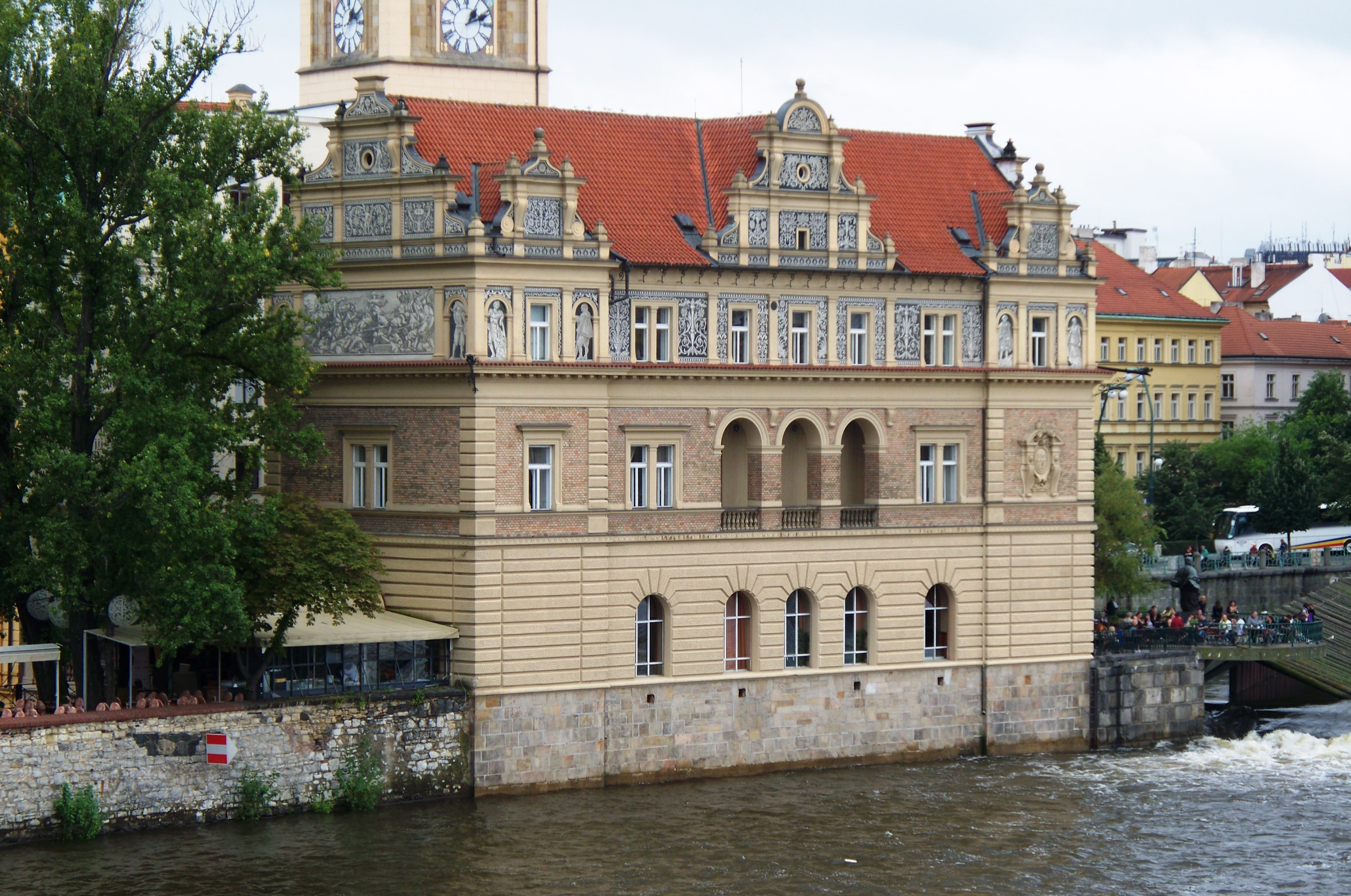 The Smetana Museum in Prague, Czech Republic.